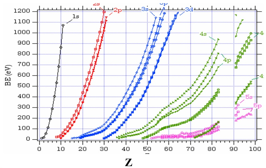 BE of orbitals increases with atomic number (Z)